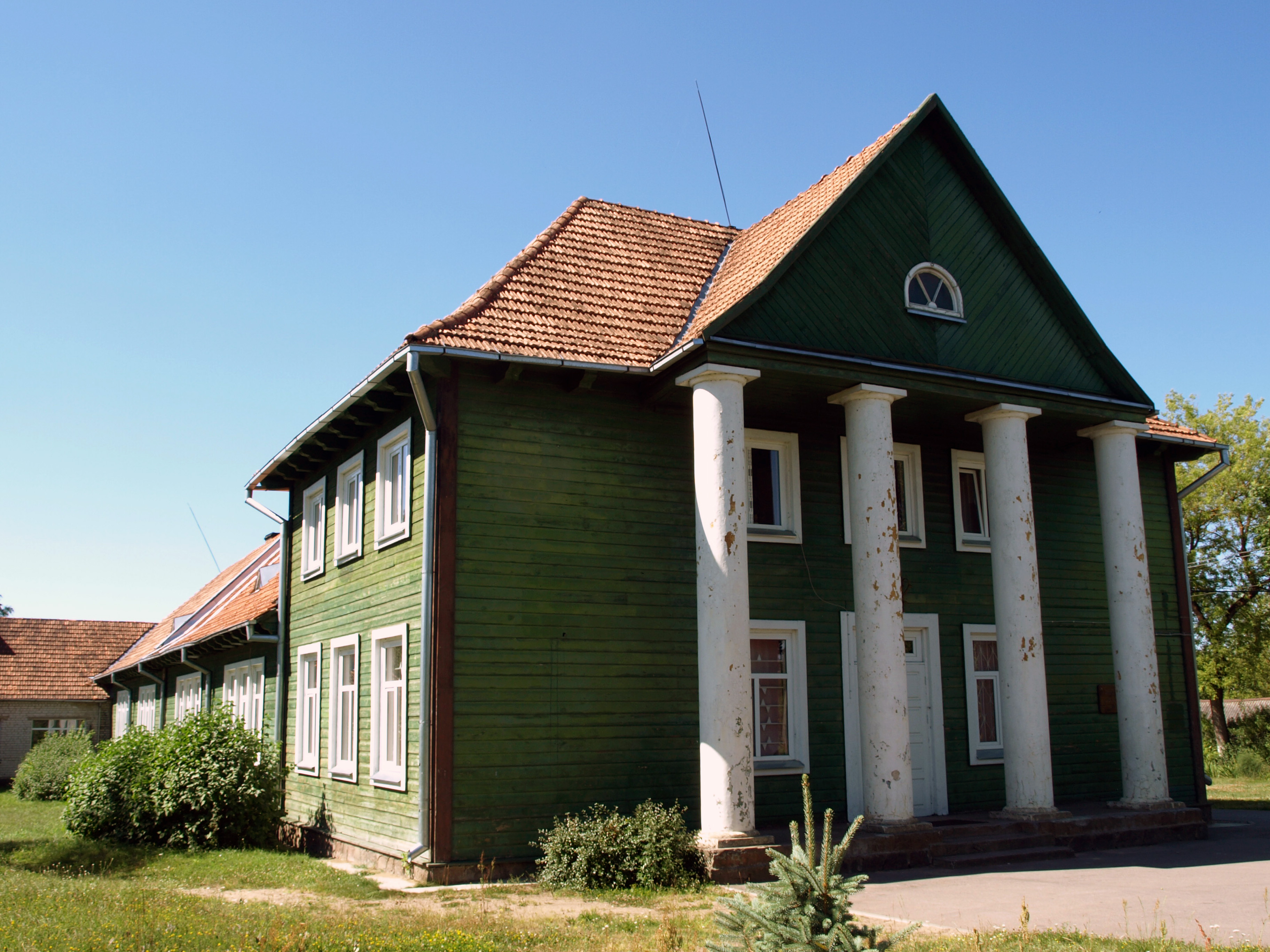 Bezdonys school, Vilnius district, Lithuania